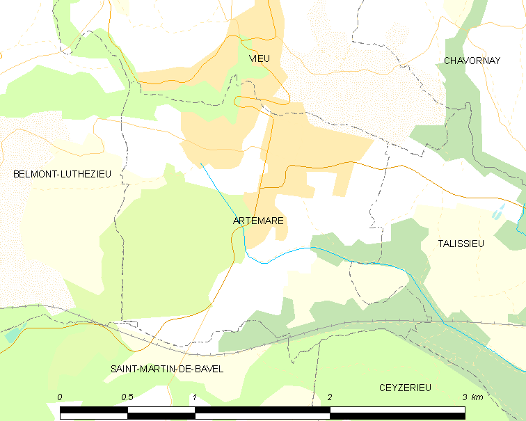 Map of French commune: Artemare Map commune FR insee code 01022.png